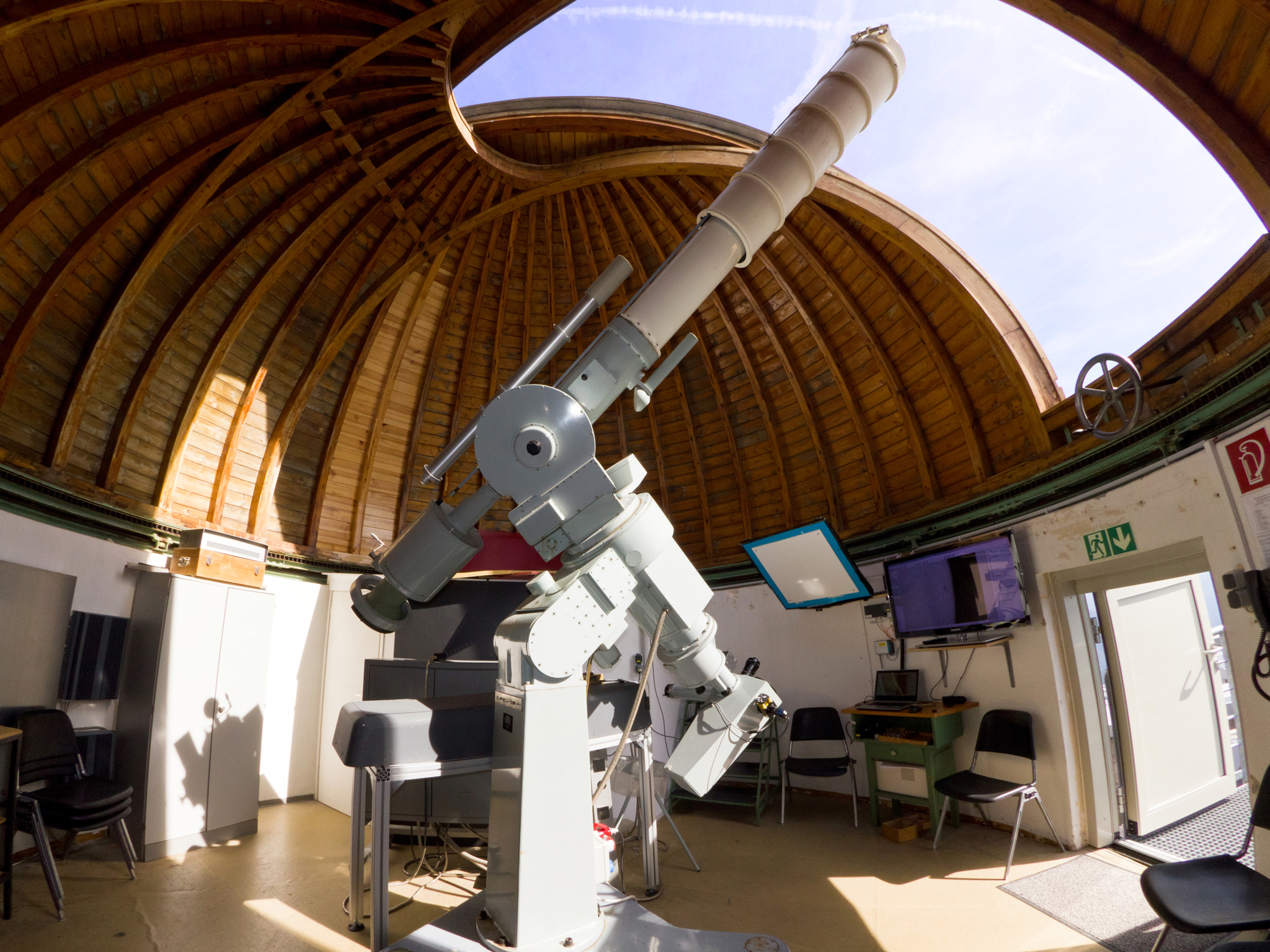 The 0.2m Solar Telescope of the Wendelstein Observatory. The telescope was built ca. 1960 by Carl Zeiss, and has been used until 1988 for scientific withe light, H-Alpha and spectroscopic observations of the sun. It can also be operated as a coronocraph, creating a artificial "total solar eclipse" to observe the solar corona and prominences. Today, the instrument is used for education and outreach purposes.